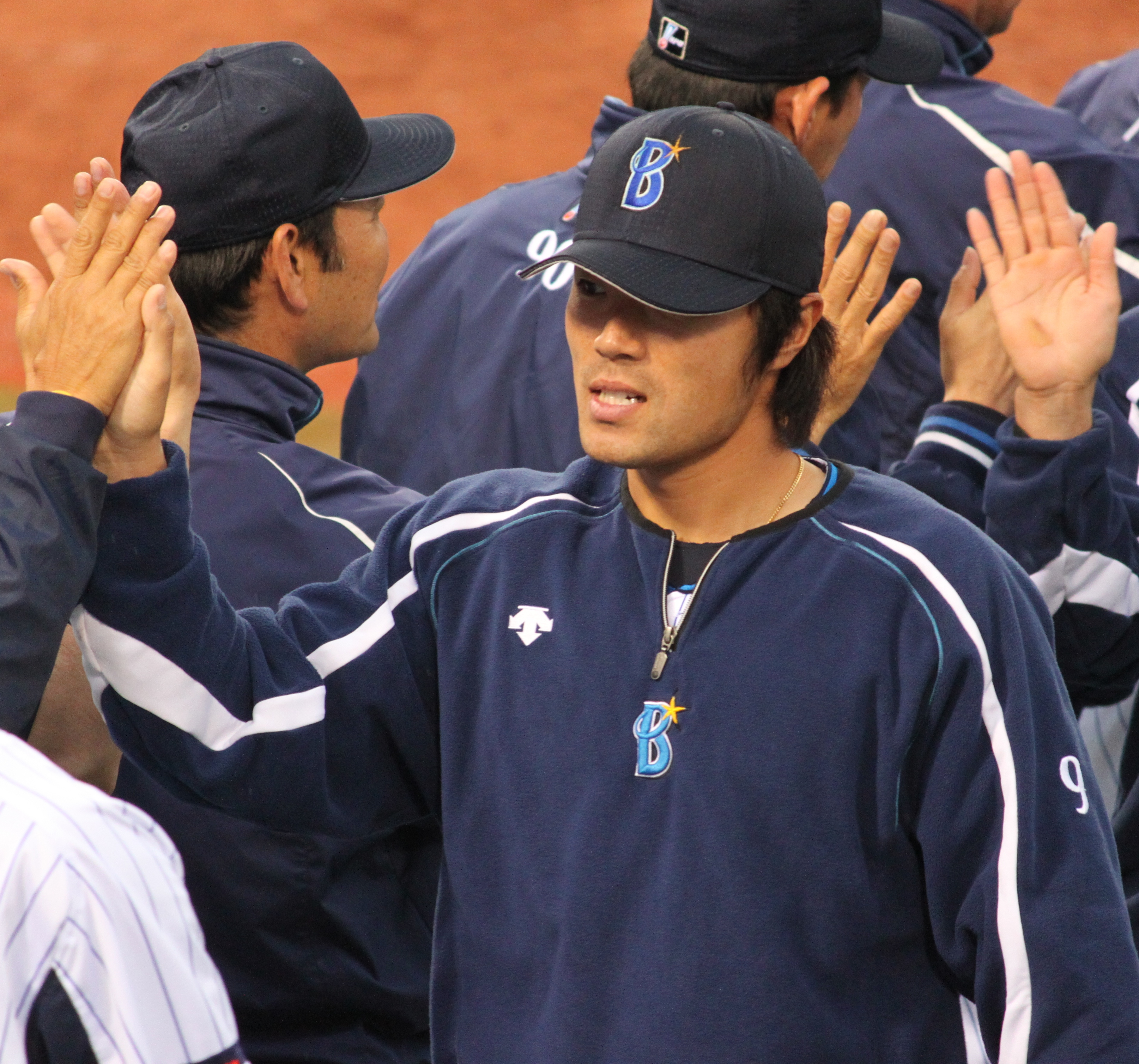 Ikki Shimamura, infielder of the Yokohama DeNA BayStars, at Yokohama Stadium.